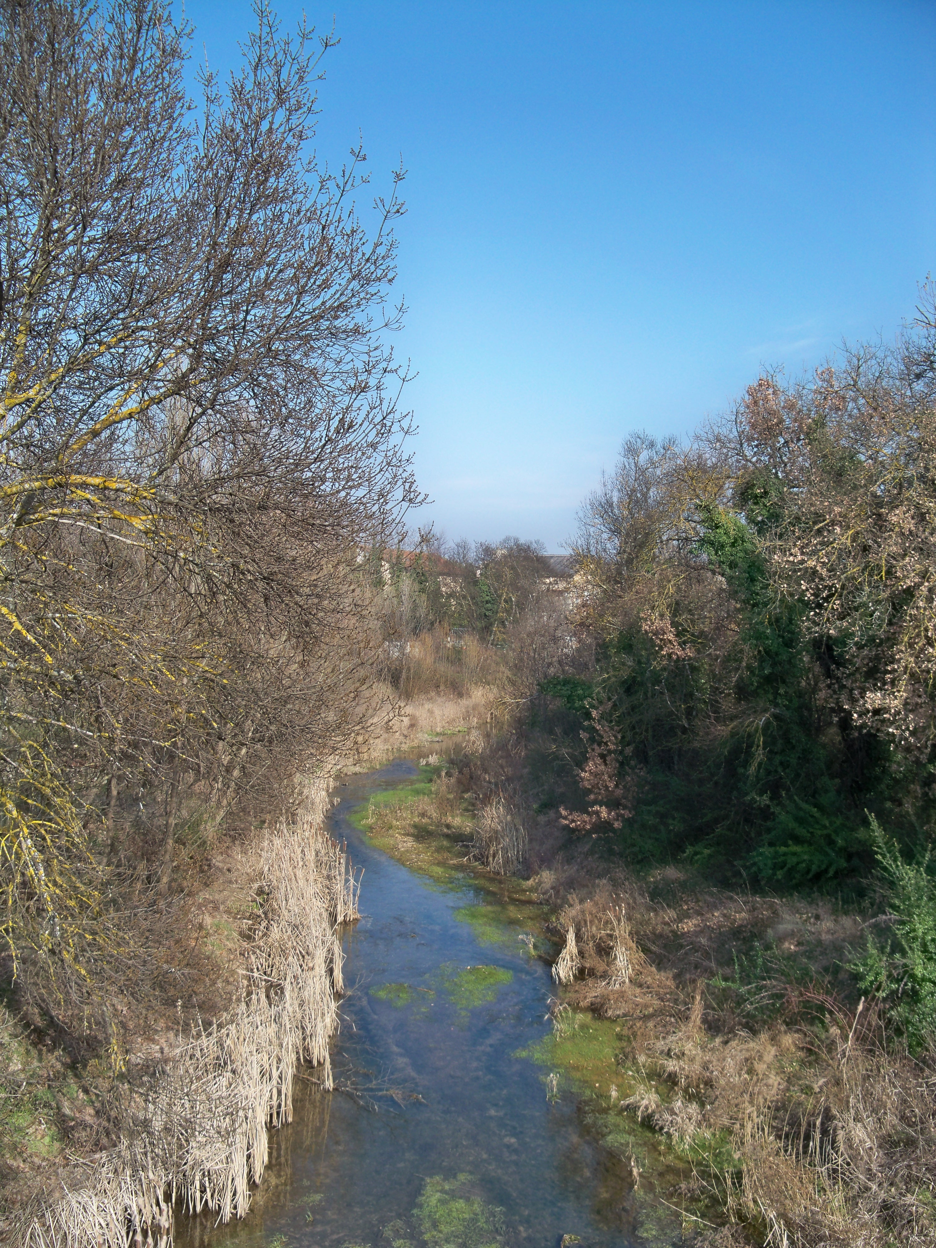 Eze river in Grambois, vaucluse, France